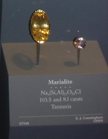 Cropped from a picture I took on my senior trip